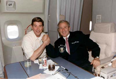 Congressman Bob Riley and President George W. Bush traveled to Alabama in June aboard Air Force One for the President's visit to Birmingham.